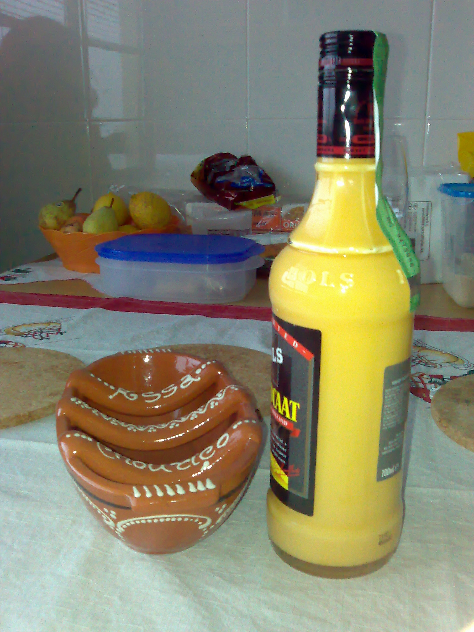 Garrafa de advocaat. A bottle of advocaat.